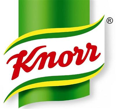 Logo Knorr